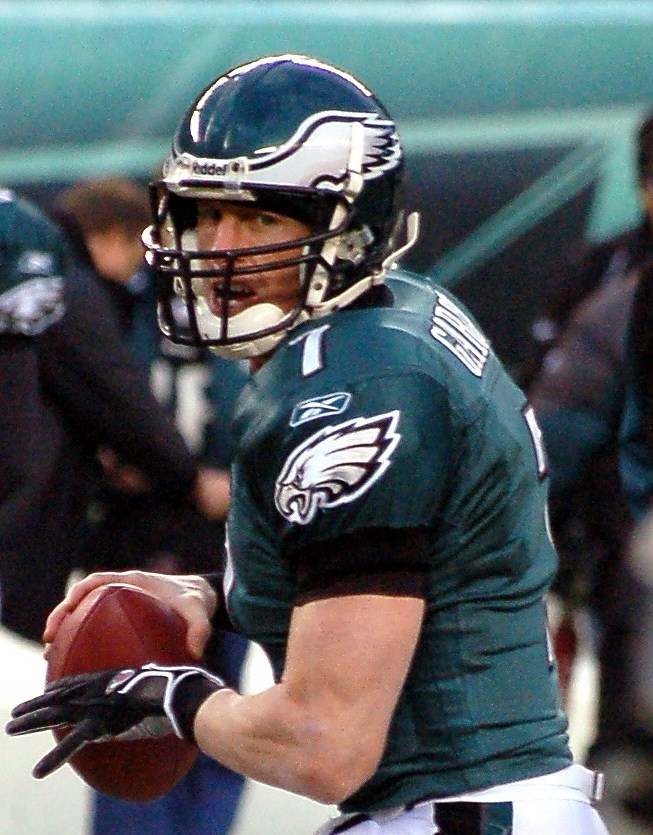 Jeff Garcia warming up with a pass to Donte Stallworth